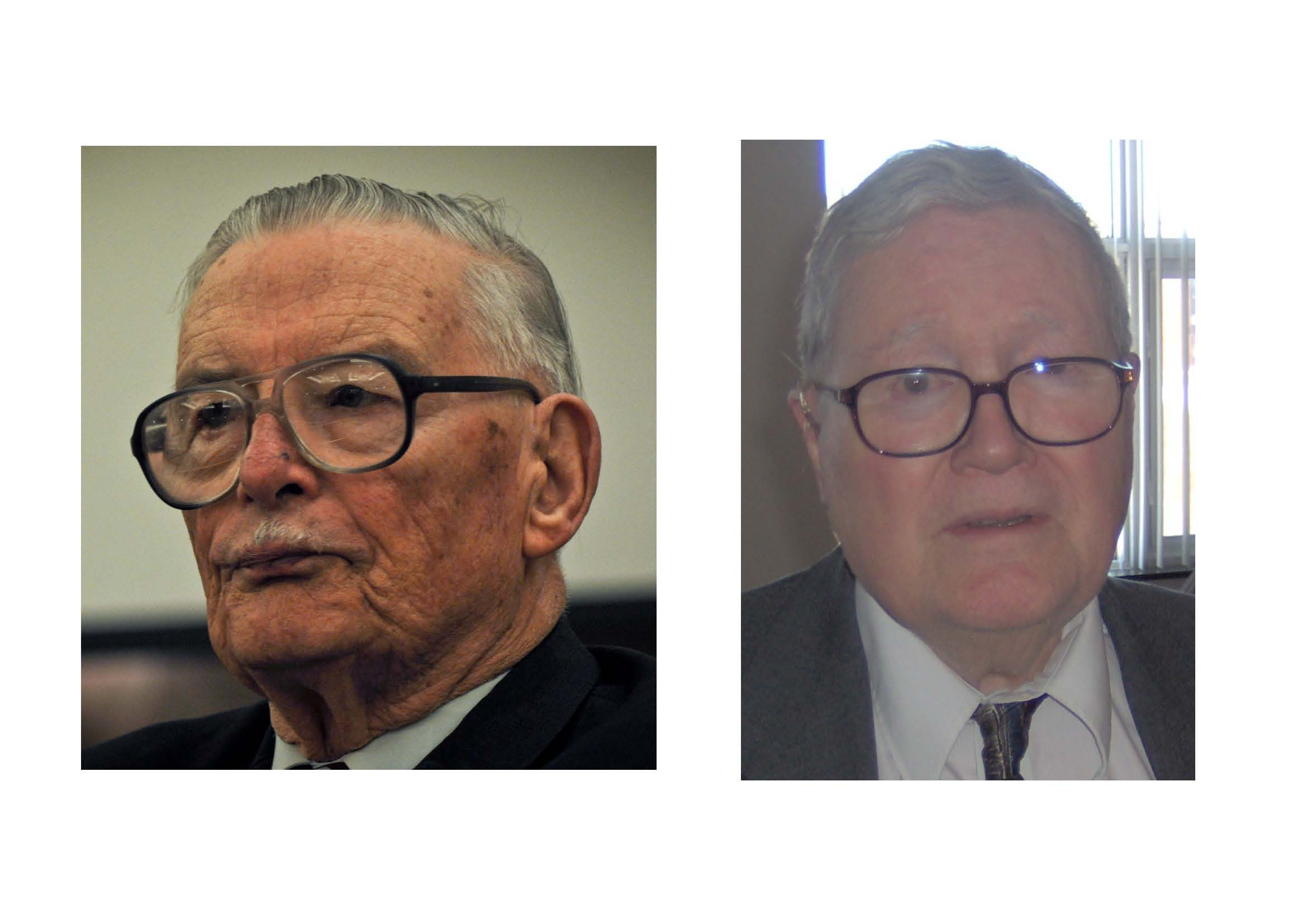 James Buchanan (1919-2013), Gordon Tullock (1922-2014)